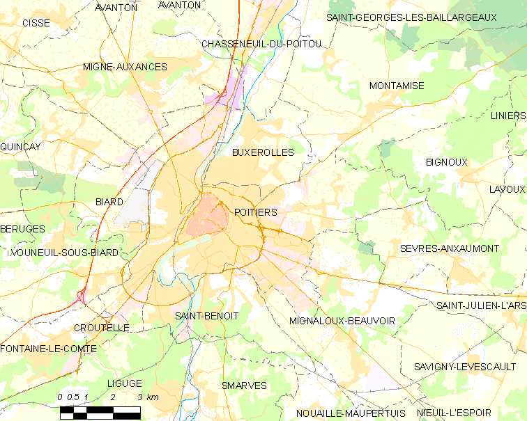 Map of French municipality Poitiers